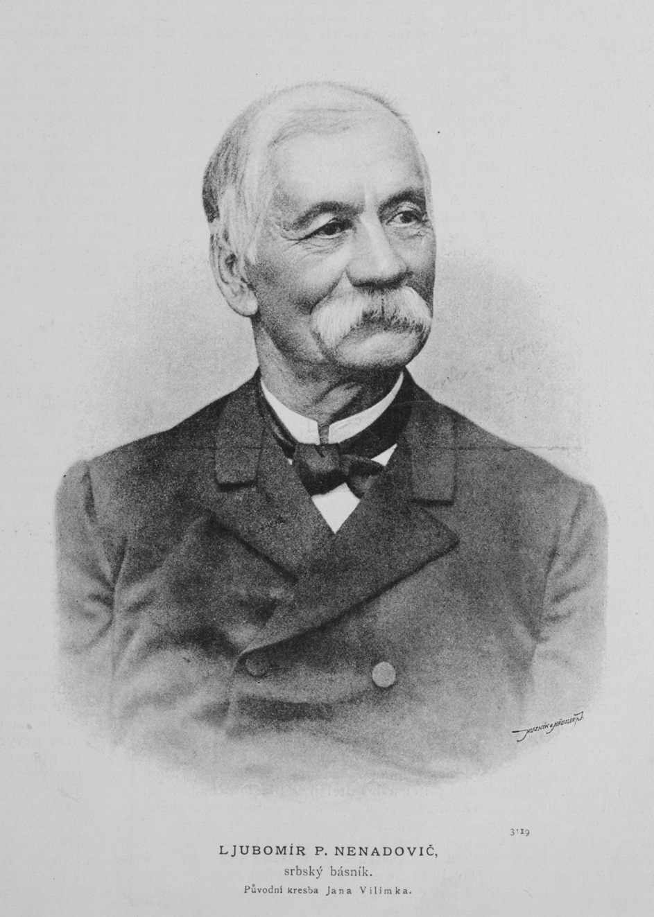 Portrait of Ljubomir Nenadović (1826-1895), Serbian poet